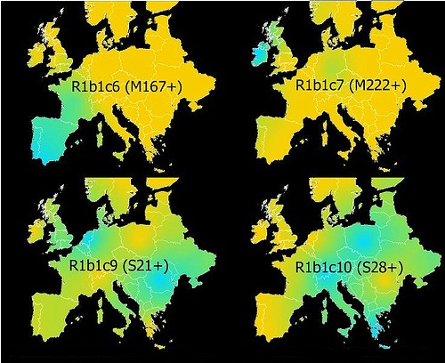 Subclades of the Y-DNA haplogroup R1b